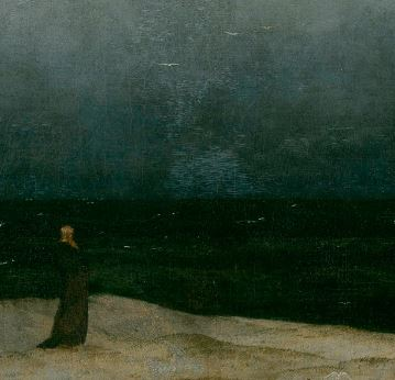 The Monk by the Sea by Caspar David Friedrich, detail